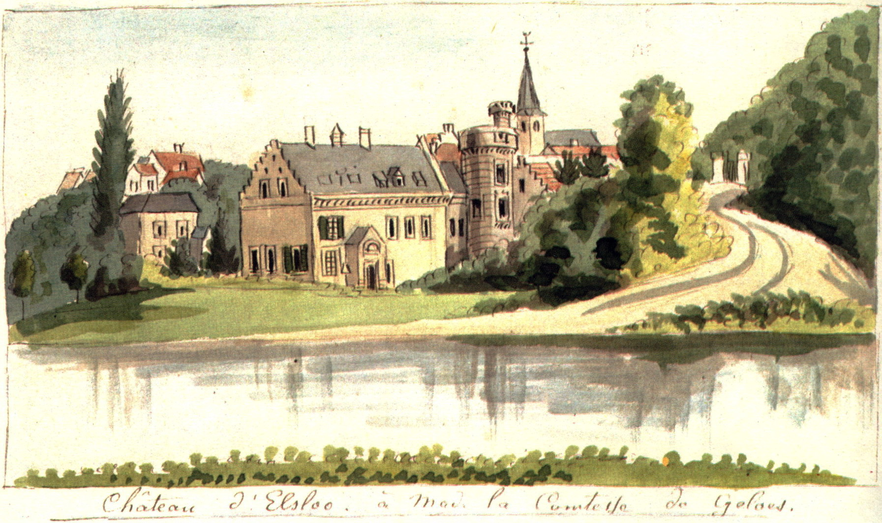 View of Elsloo Castle, Limburg, the Netherlands. Drawing by Philippus van Gulpen (c 1840-60)